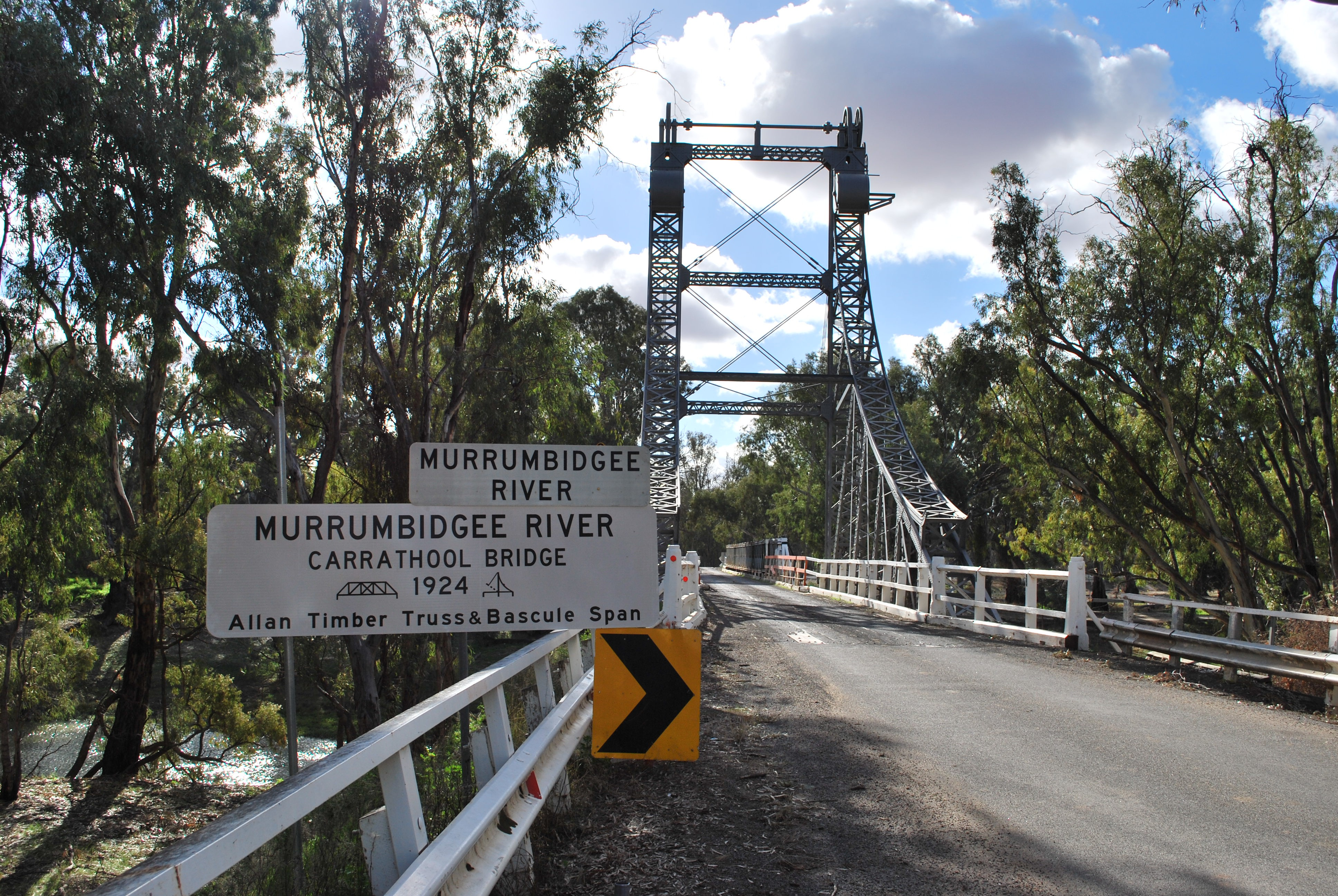 The approach to the Carrathool Bridge from the south bank of the Murrumbidgee River